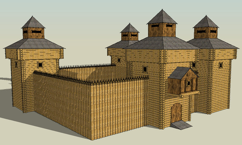 Ostrog of Irkutsk in 1661-1669